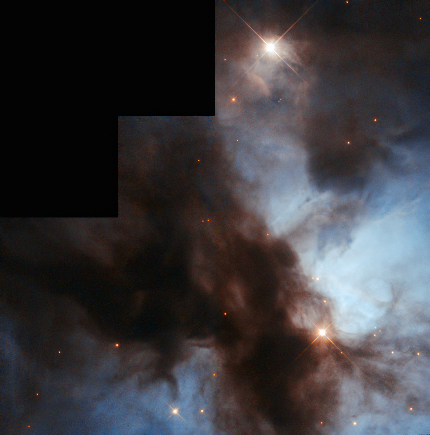 Unlike the venomous fictional plants that share its name, the Trifid of the North, otherwise known as the Northern Trifid or NGC 1579, poses no threat to your vision. The nebula’s moniker is inspired by the better-known Messier 20, the Trifid Nebula, which lies very much further south in the sky and displays strikingly similar swirling clouds of gas and dust. The Trifid of the North is a large, dusty region that is currently forming new stars. These stars are very hot and therefore appear to be very blue. During their short lives they radiate strongly into the gas surrounding them, causing it to glow brightly. Many regions like the Trifid of the North — named H II regions — are clumpy and strangely shaped due to the powerful winds emanating from the stars within them. H II regions also have relatively short lives, furiously forming baby stars until the immense winds from these bodies blow the gas and dust away, leaving just stars behind. The image above, captured by the NASA/ESA Hubble Space Telescope, shows the bright body of the nebula, with dark dust lanes snaking across the frame. The Trifid of the North glows strongly due to the many stars within it, like young binary EM* LkHA 101. Visible to the bottom right of the image, this binary is thought to be surrounded by a hundred or so fainter and less massive stars, making up a recently formed cluster. It lies behind a cloud of dust so thick that it is almost invisible to astronomers at optical wavelengths. Infrared imaging has now penetrated this dusty veil and is uncovering the secrets of this binary star, which is about five thousand times brighter than our own Sun. A version of this image by Bruno Conti was entered into the Hubble’s Hidden Treasures competition.